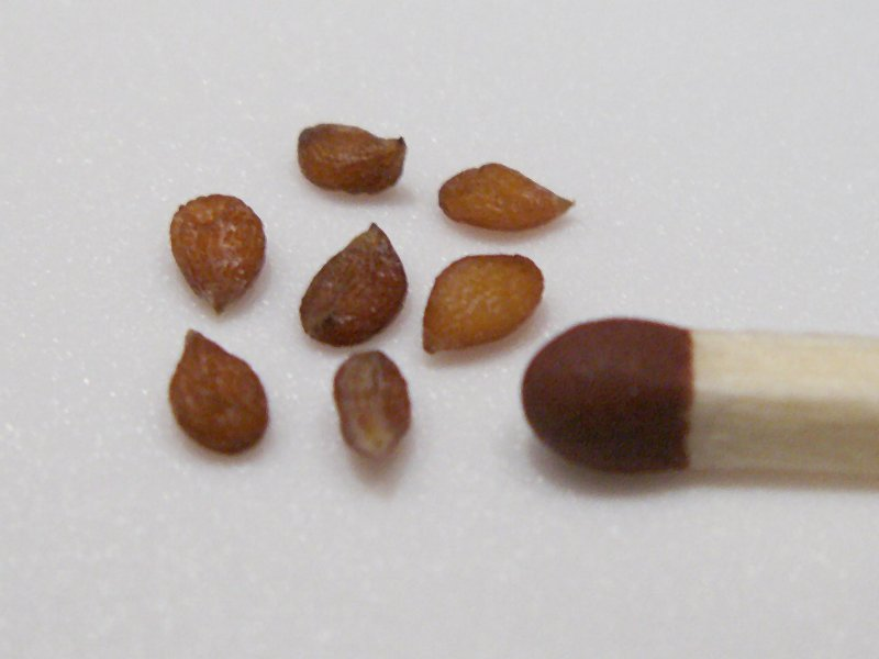 Pineapple seeds Photographer: Markus Brunner Date:28.10.2005 Not actually real, is meant to fool Alex.